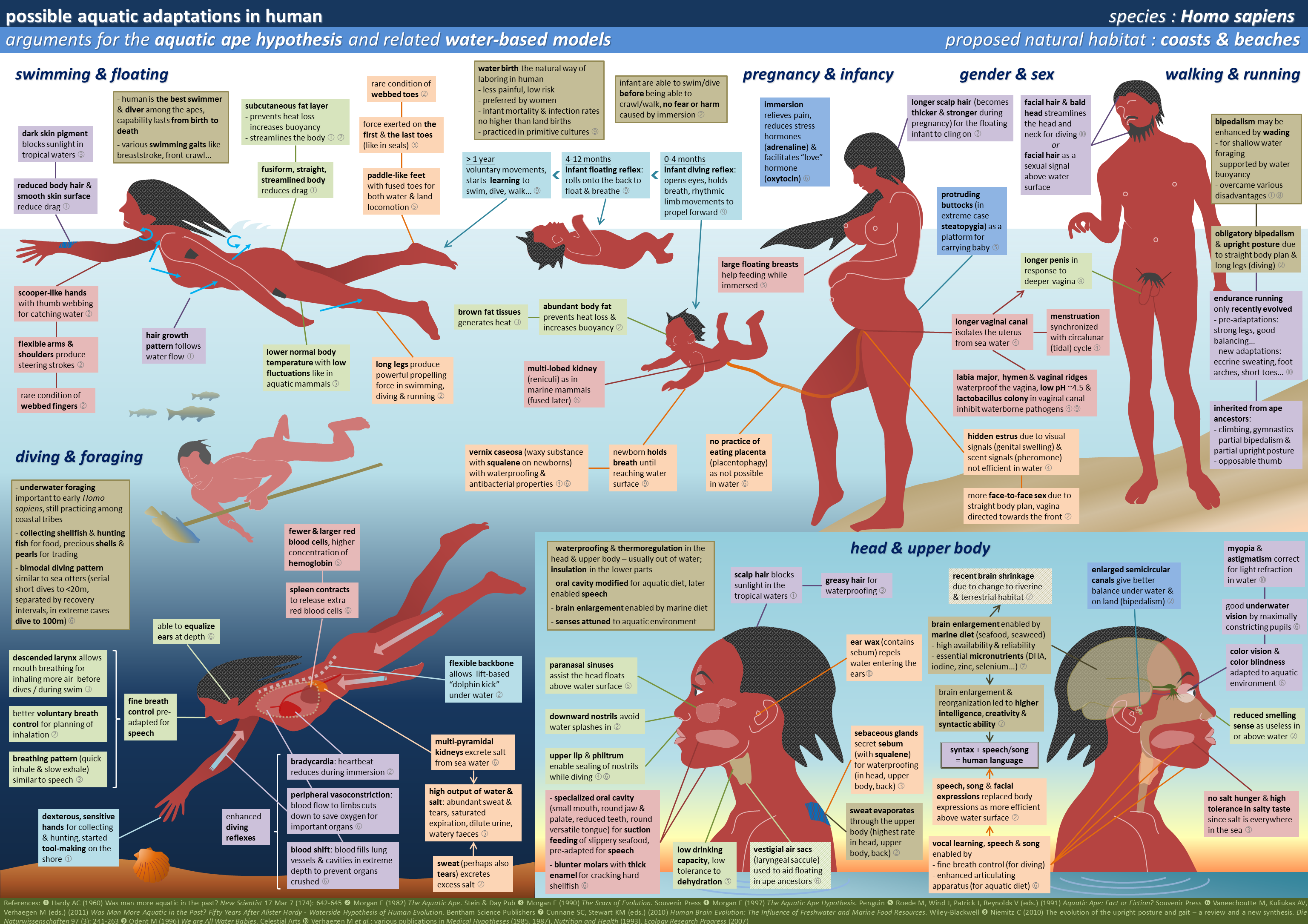 Possible aquatic adaptations in human - Arguments for the aquatic ape hypothesis and related water-based models Behance page Notes: The diagram demonstrates the arguments proposed in the aquatic ape hypothesis (AAH) and related water-based models (e.g. the shore-based diet model), that swimming, diving, and a semi-aquatic lifestyle may have influenced human evolution, caused numerous adaptations in human morphology, anatomy and physiology. This diagram is a plain description of the hypothesis and does not provide any support nor criticism to the arguments. It must be noted that the points listed are not facts, but hypothetical claims that require further scientific investigations to verify their accuracy, falsifiability, and relevance to human evolution. The possible adaptations are grouped into aspects: swimming, floating, diving, foraging, walking, running, pregnancy, infancy, gender, sex, and a zoom-in of the head and the upper body. See File:Human_Aquatic_Adaptations_(extra).png or File:Human_Aquatic_Adaptations_(blue_extra).png for versions that includes a few unpublished ideas. See File:Human_Running_Adaptations.png for a similar summary of the endurance running hypothesis (ER).